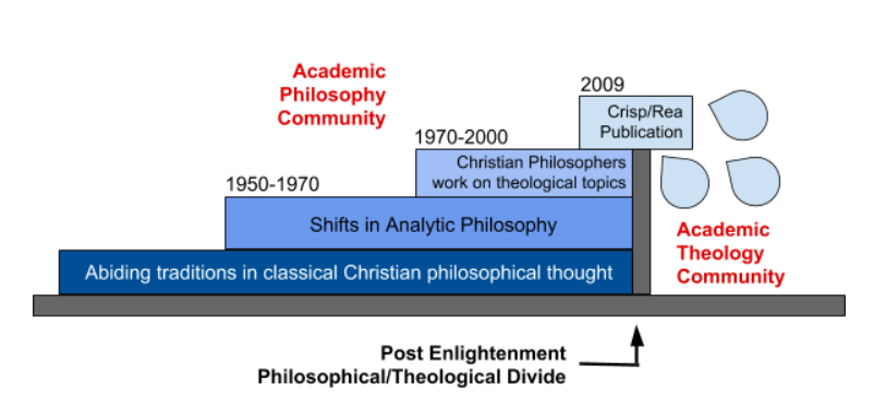 This diagram illustrates several broad stages that led to the existence of Analytic Theology